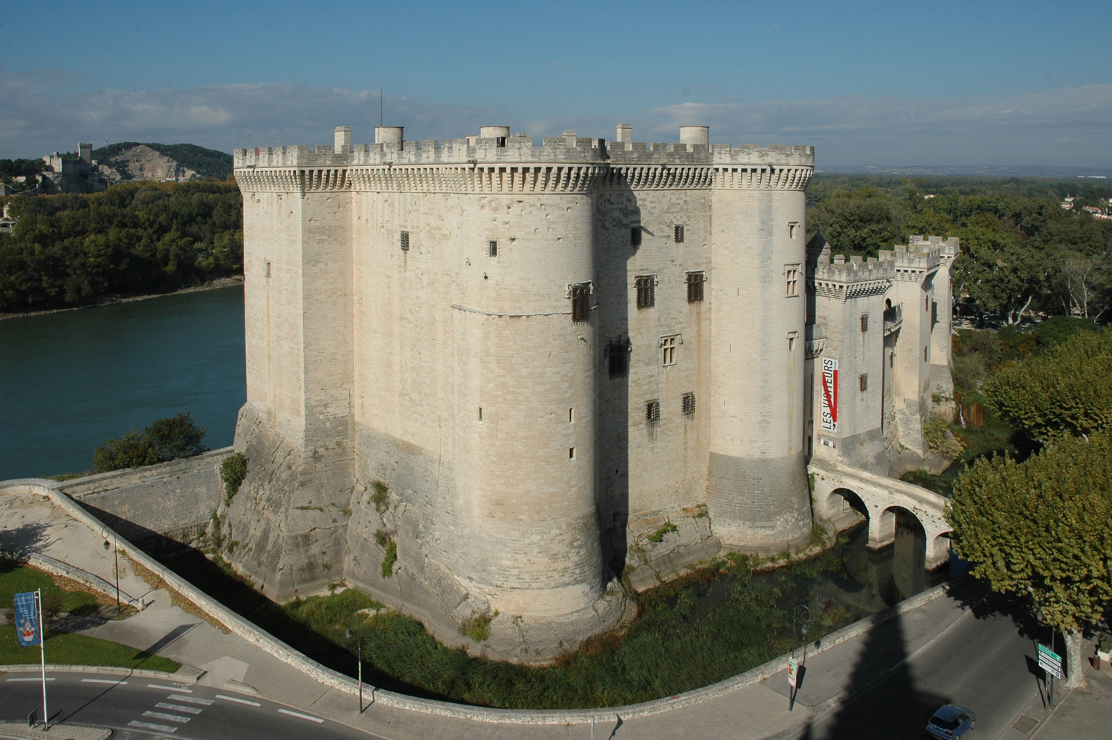 Tarascon Le Chateau. The Château de Beaucaire is visible in the background.in the bed